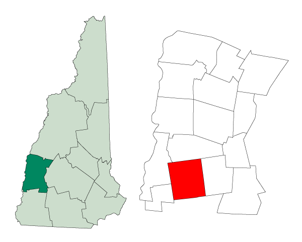 Map of a municipality in Sullivan County, New Hampshire